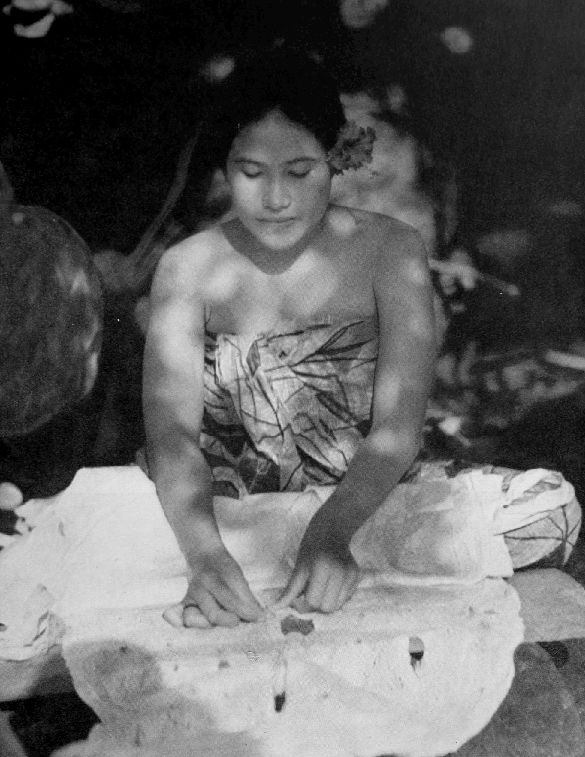 Photo of making cloth from the 1926 film Moana. A renewal search was done at using the author's name. There were no listings for Frances Hubbard Flarety. There's no evidence of renewal for this book.